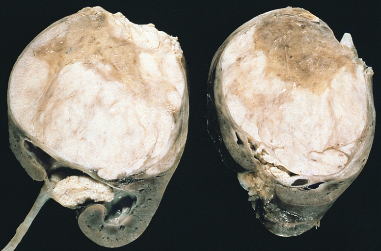 KIDNEY-BLADDER-URINARY: NEPHROBLASTOMA Note the prominent septa subdividing the sectioned surface and the protrusion of tumor into the renal pelvis, resembling botryoid rhabdomyosarcoma.